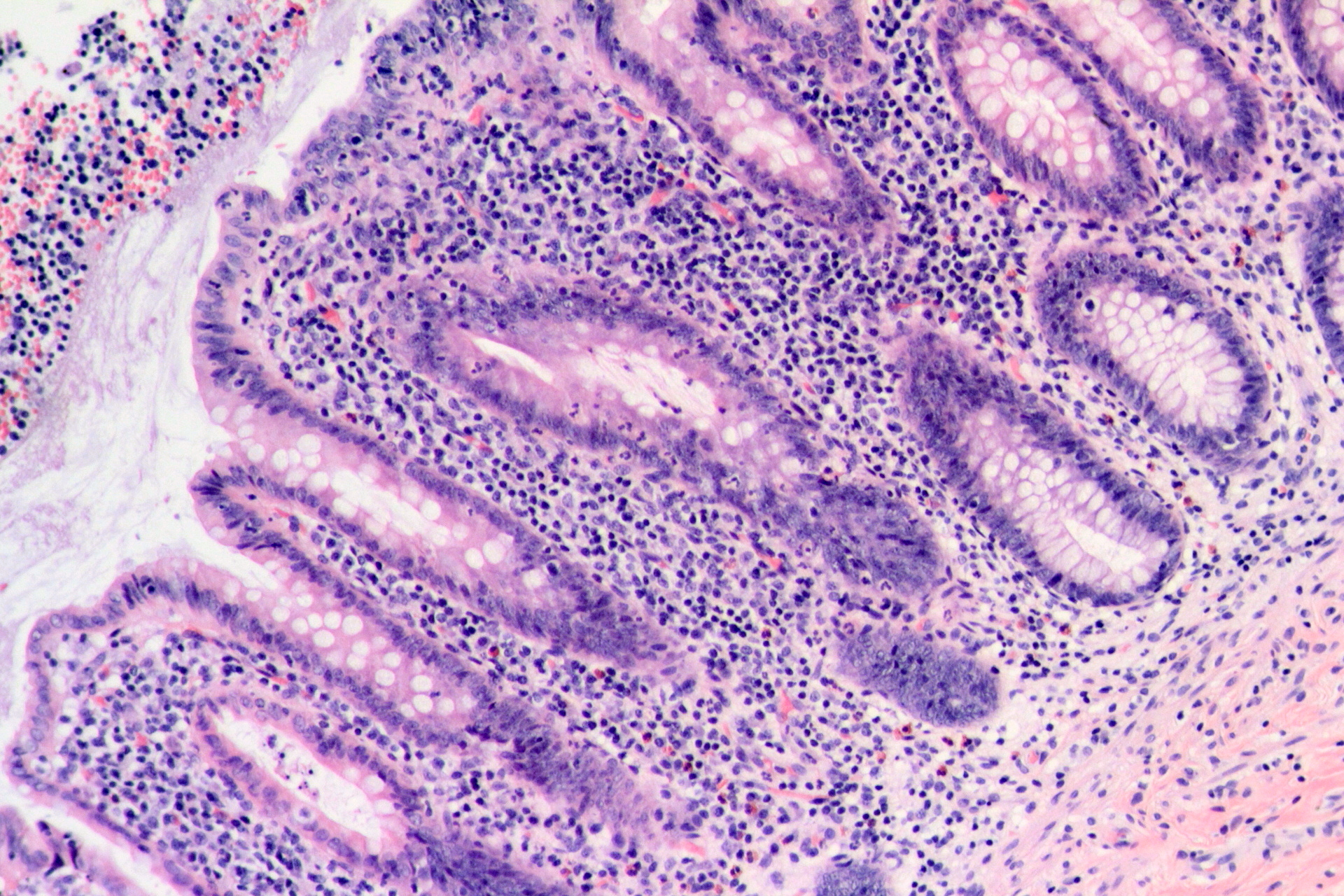 Acute Appendicitis.